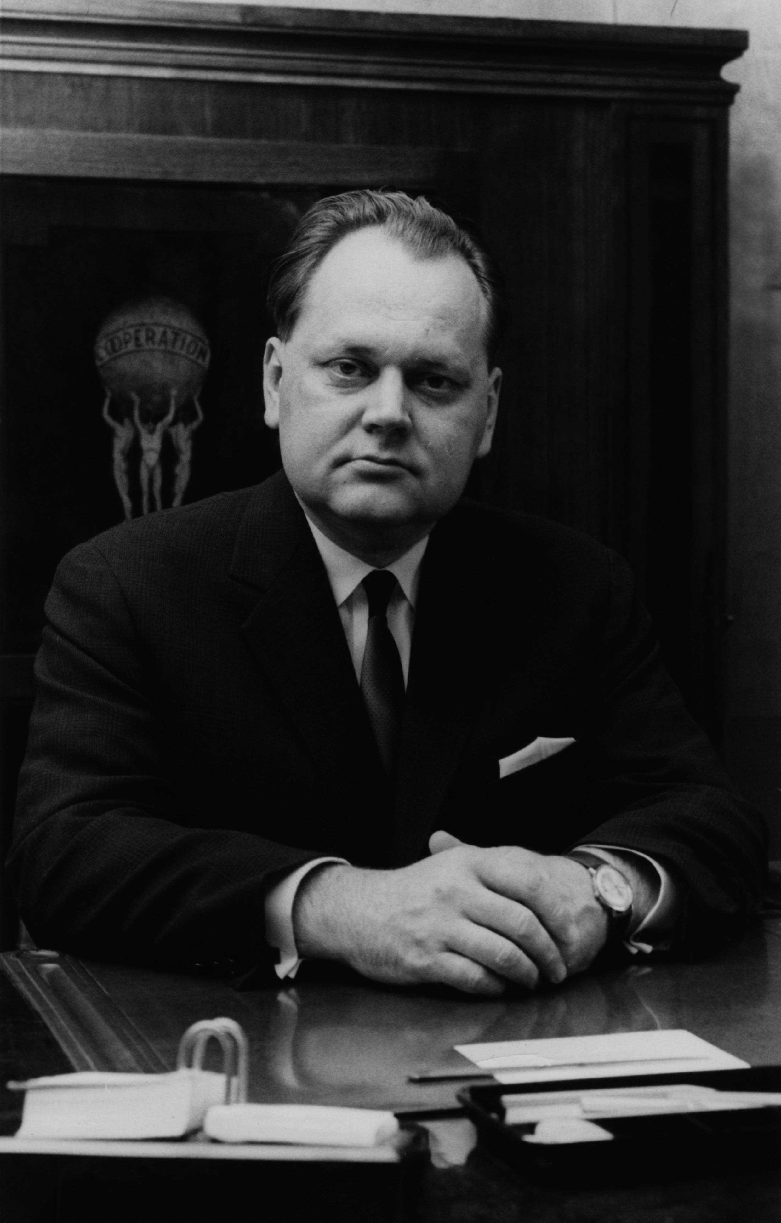 Photograph of the Finnish businessman Ylermi Runko (1927–2013).